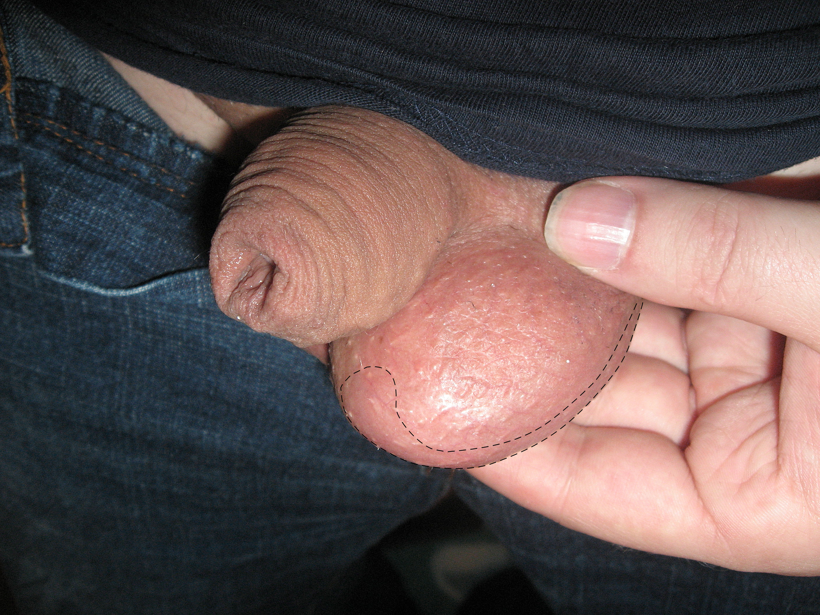 A male (age 30) is showing his left testicle to demonstrate the location of the epididymis (marked on the image).